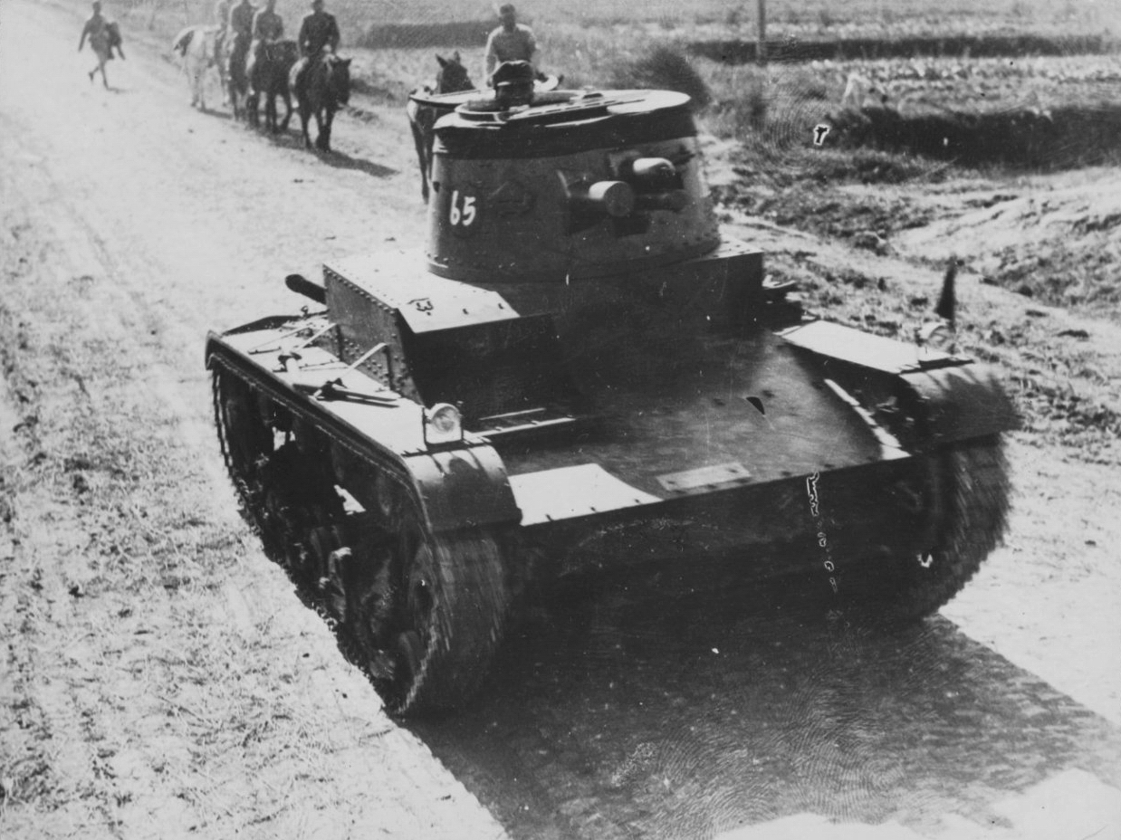 Standard Vickers Mark E Type B in Chinese Nationalist service.